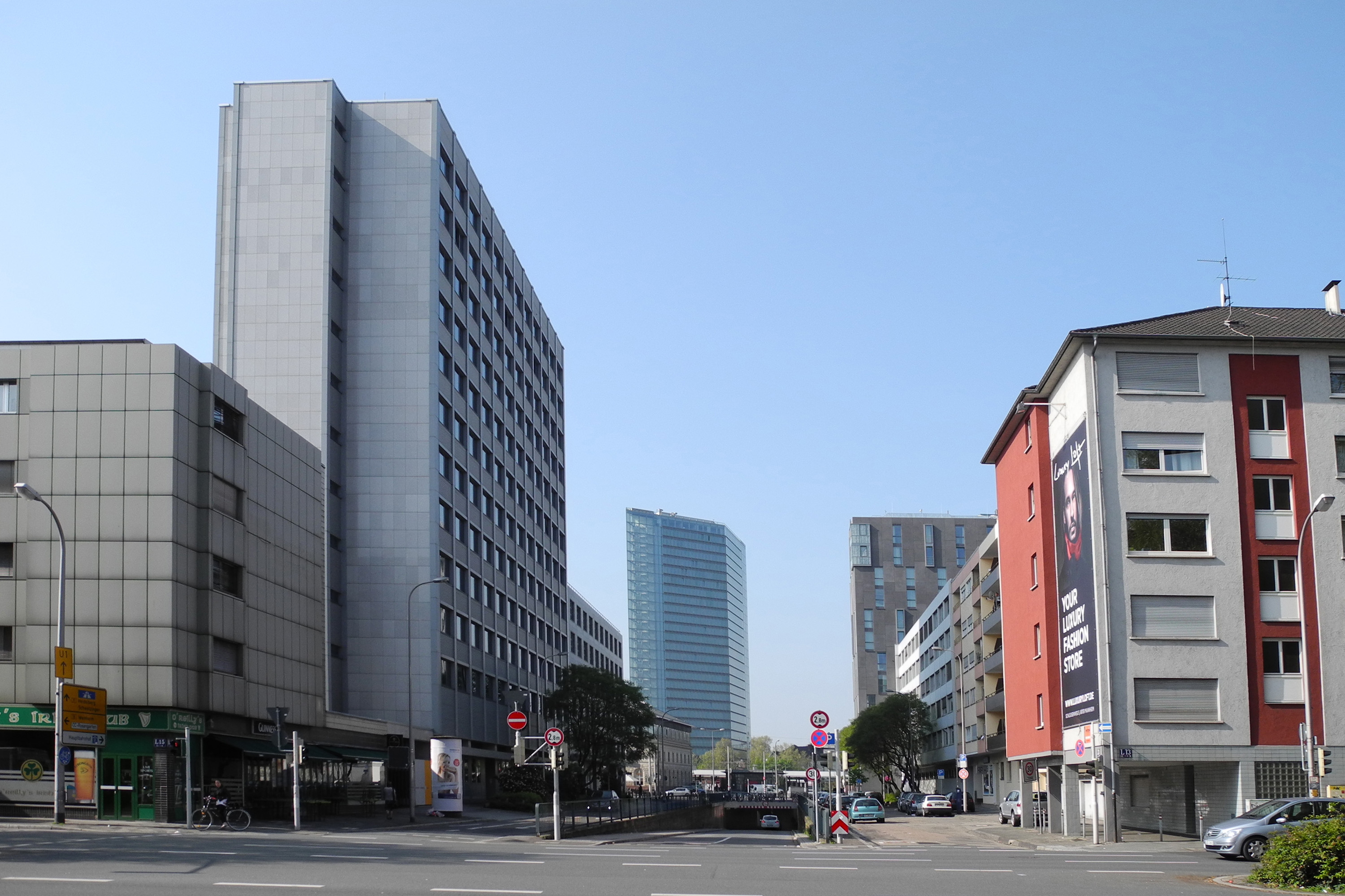 Suezkanal (Tunnelstr.), Mannheim, entry from Bismarckstr., city, direction MA-Lindenhof. In the background: Victoria-Tower.